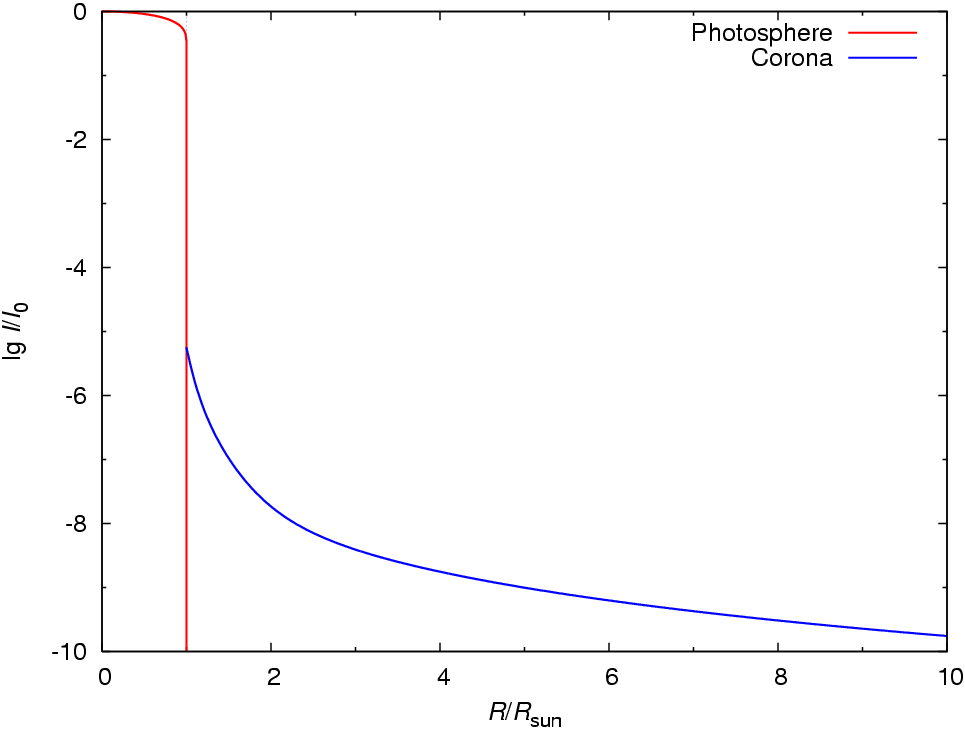 Description: Average intensity profile of the solar corona, logarithmic scale. The curve is based on the empirical formula , where I0 is the intensity in the middle of the apparent solar disc and R is the angular distance from the middle in units of the angular radius of the sun's disc. Author: SiriusB Source: L. J. November, S. Koutchmy: White-Light Coronal Dark Threads and Density Fine Structure, Astrophysical Journal, 466, S. 512ff, Juli 1996 (the formula). Plotted with Gnuplot. See also: Image:Solar Middle-Edge Variation.png